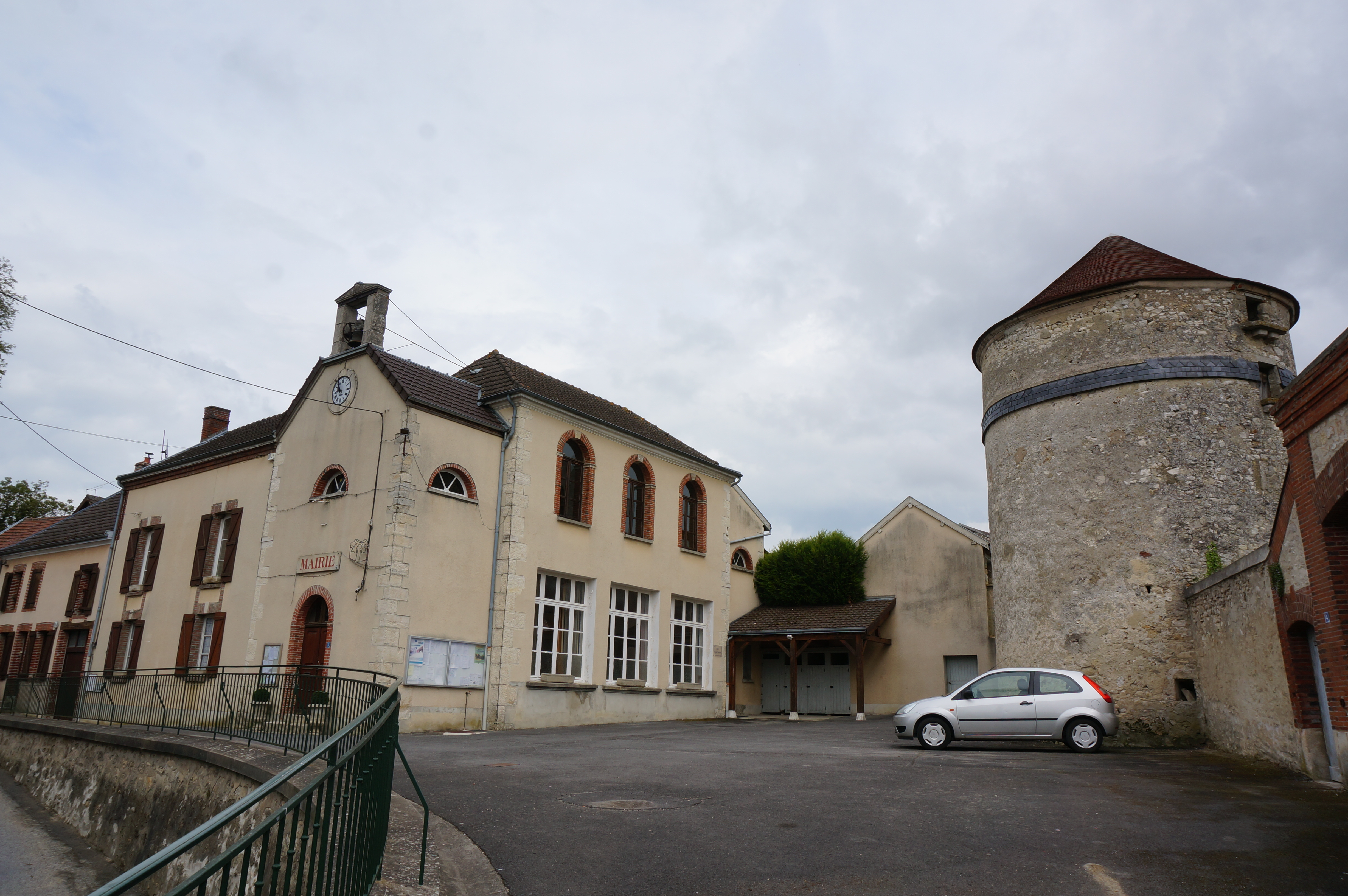 Mairie tour Vandières.